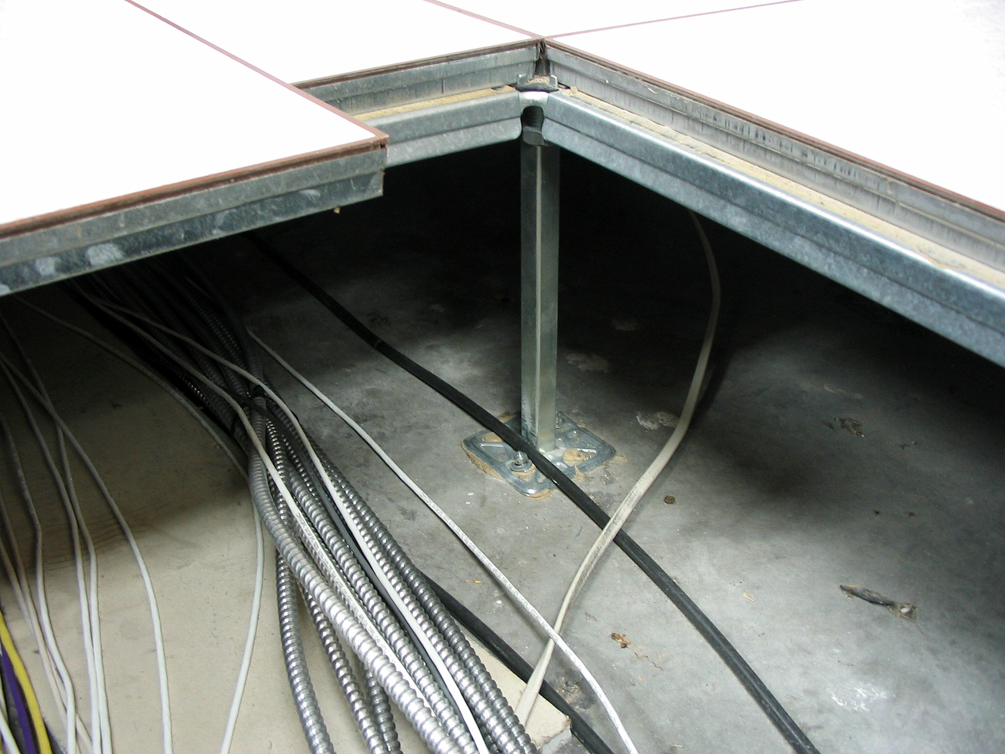 Close-up view under a raised floor.